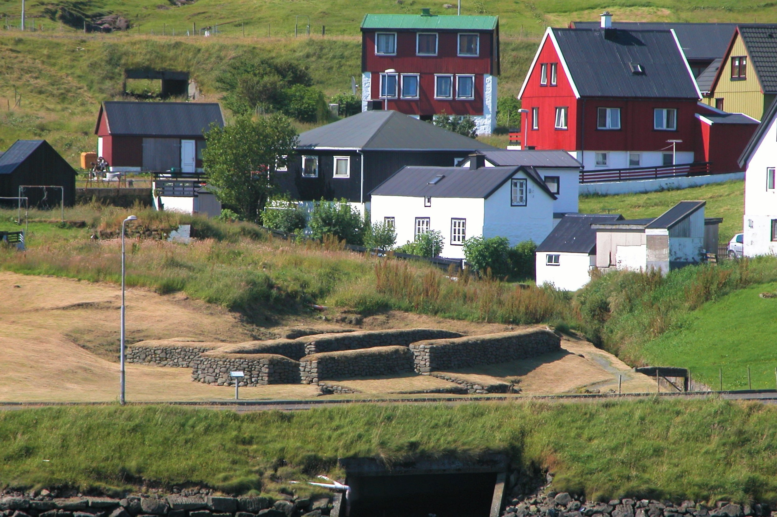 Archaeological excavations have shown that the town was first settled the 9th century by the Vikings. Leirvík, Eysturoy, Faroe Islands